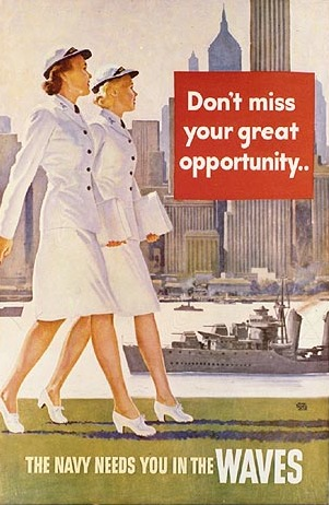 A navy waves recruiting poster